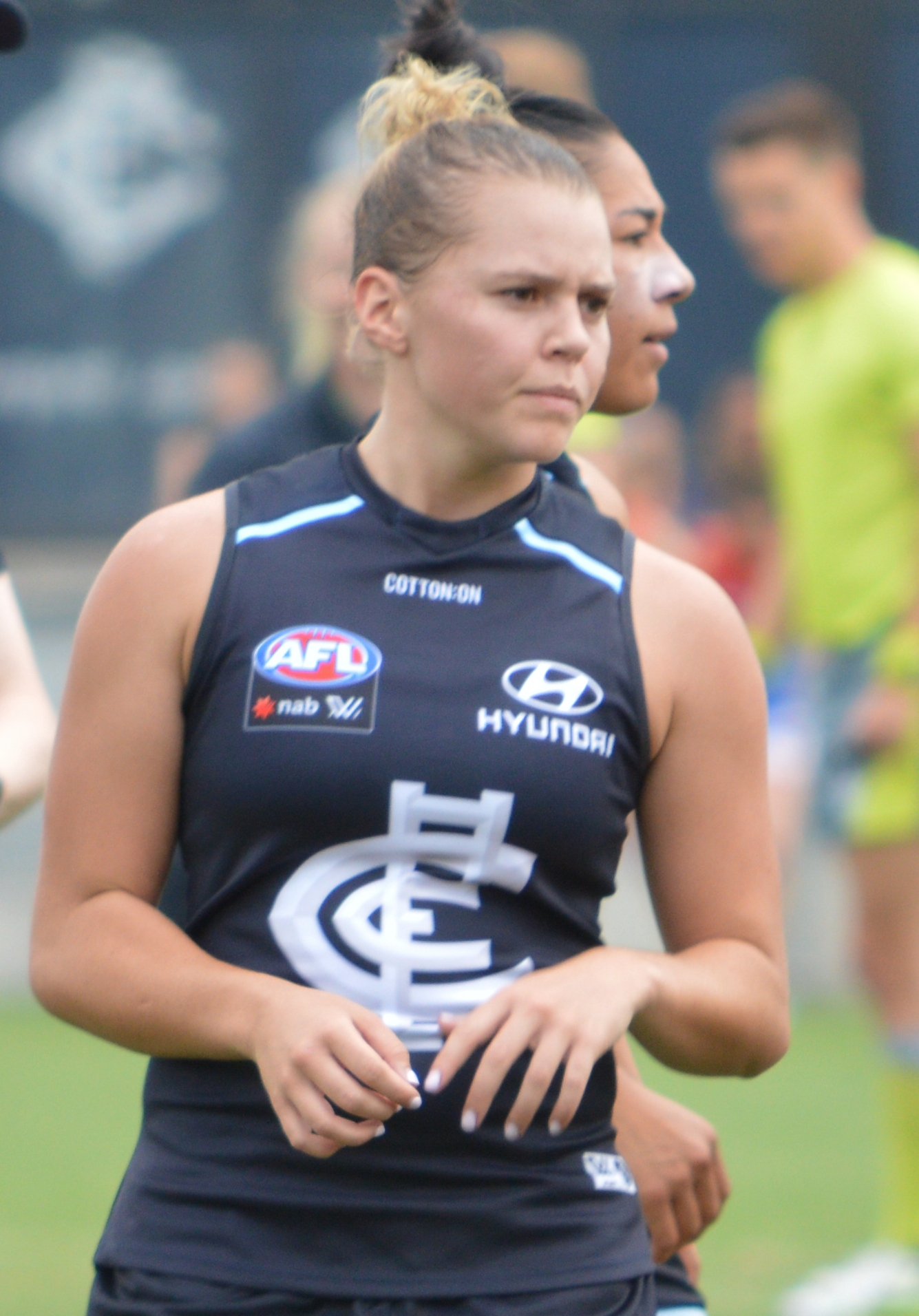 Maddison Gay during the round 6, 2018 AFL Women's match between Carlton and Melbourne.